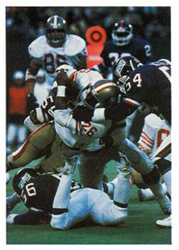 A football card from the 1986 Jeno's Pizza NFL football card stickers set of New York Giants' linebacker Andy Headenl stopping San Francisco 49ers' running back Wendell Tyler during the 1985 NFC Wild Card Game on December 29, 1985. The card is numbered #3 in the set. The back of the card reads: THE GIANTS DO IT WITH DEFENSE New York linebacker Andy Headen (54) smoothers San Francisco running back Wendell Tyler, as the Giants upend the defending Super Bowl champion 49ers 17-3 in their 1985 NFC Wild Card Game. The Giants were second in the NFL in both rushing defense and total defense in 1985. They proved it to the frustrated 49ers, who were the NFC's number-two scoring team.